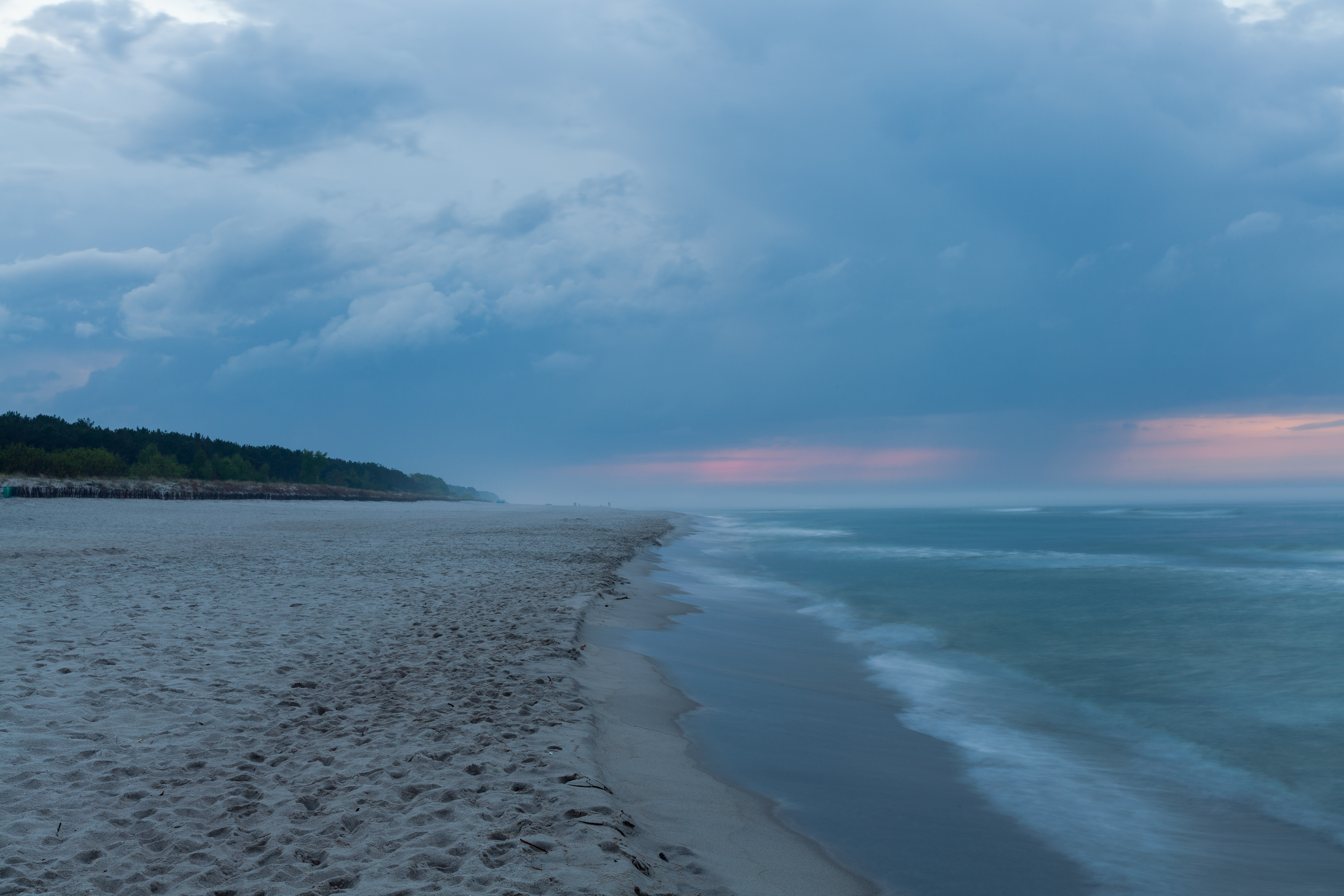 Sunset in Jastarnia Beach, Hel Peninsula, Poland.